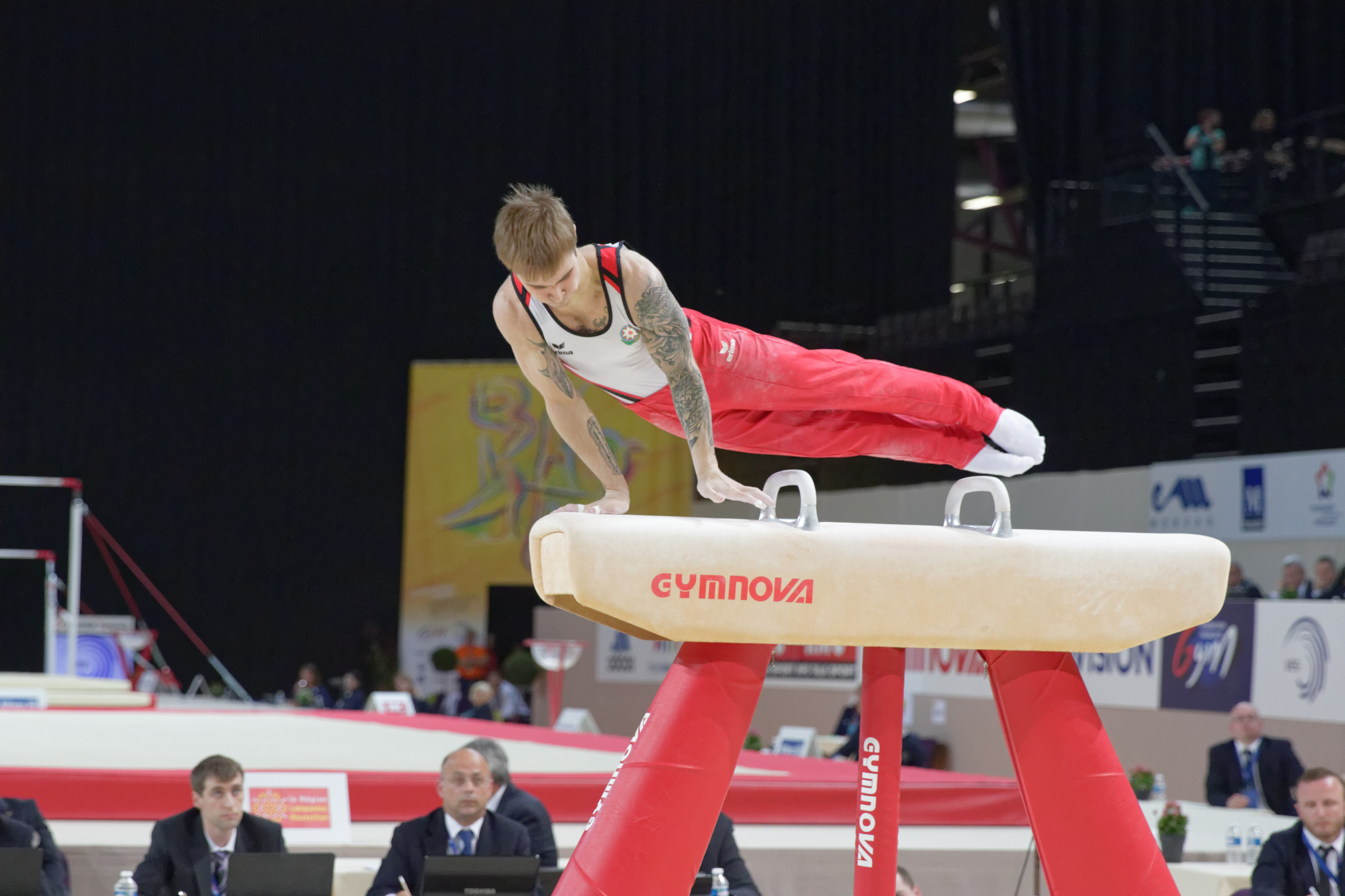 2015 European Artistic Gymnastics Championships. Pommel horse.